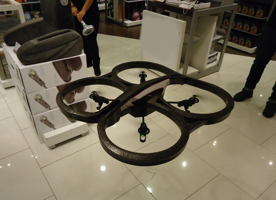 This remote controlled toy aircraft has four helicopter-type blades, flies silently, and has several cameras -- one pointing down, one pointing forwards. It hovers a few feet off the floor of the store. It is controlled by an IPad-type device. Brand name is Parrot; model is AR.Drone 2.0.